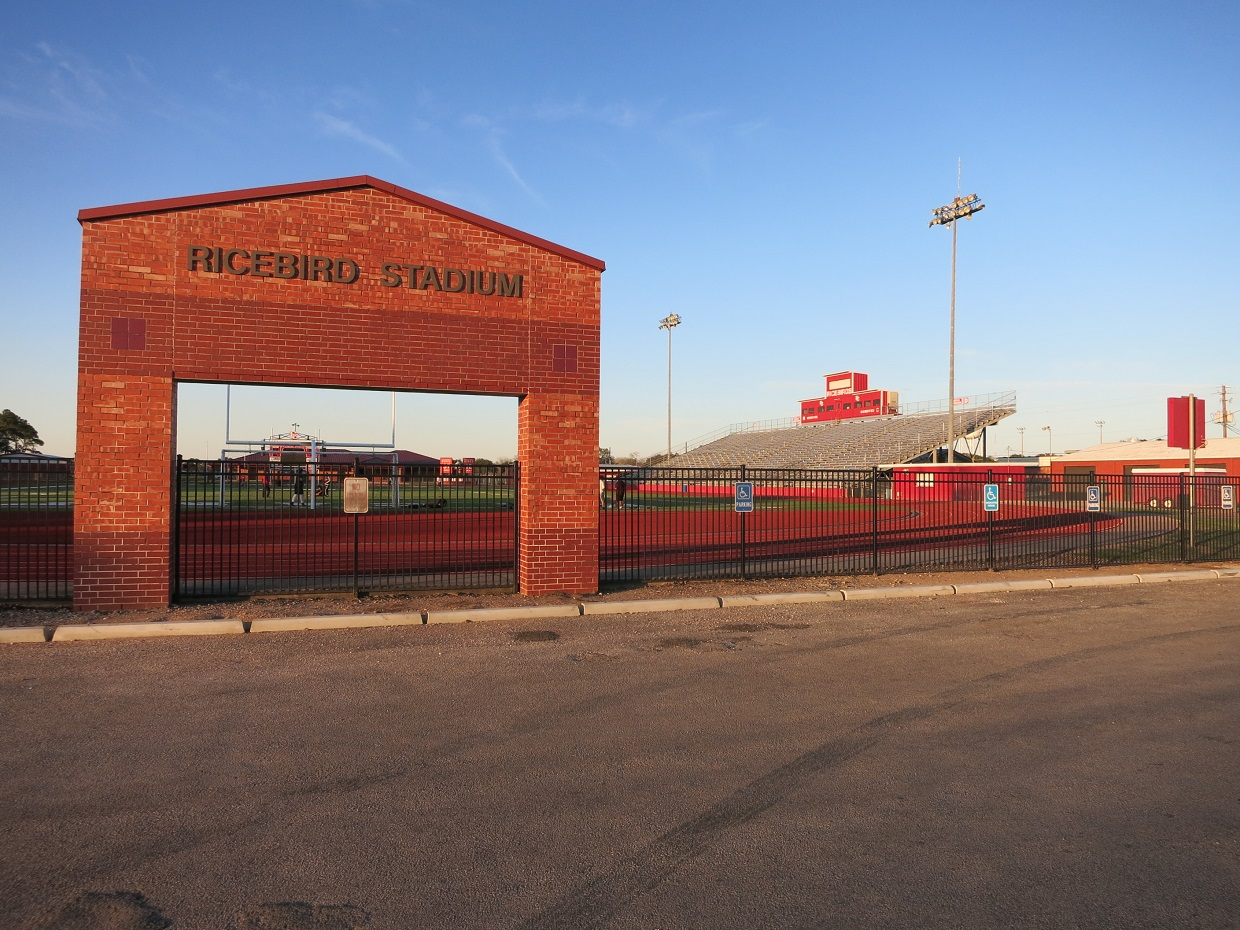 Photo shows Ricebird Stadium at W Norris St at Avenue I, El Campo, TX 77437. View is toward the north.